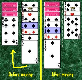 This is a simulated diagram of how to more cards in the solitaire game of Scorpion. The diagram is made using Microsoft Paint; the playing cards used are the SVG playing cards.